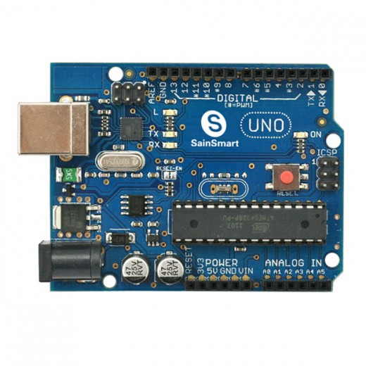 Compatible With Arduino